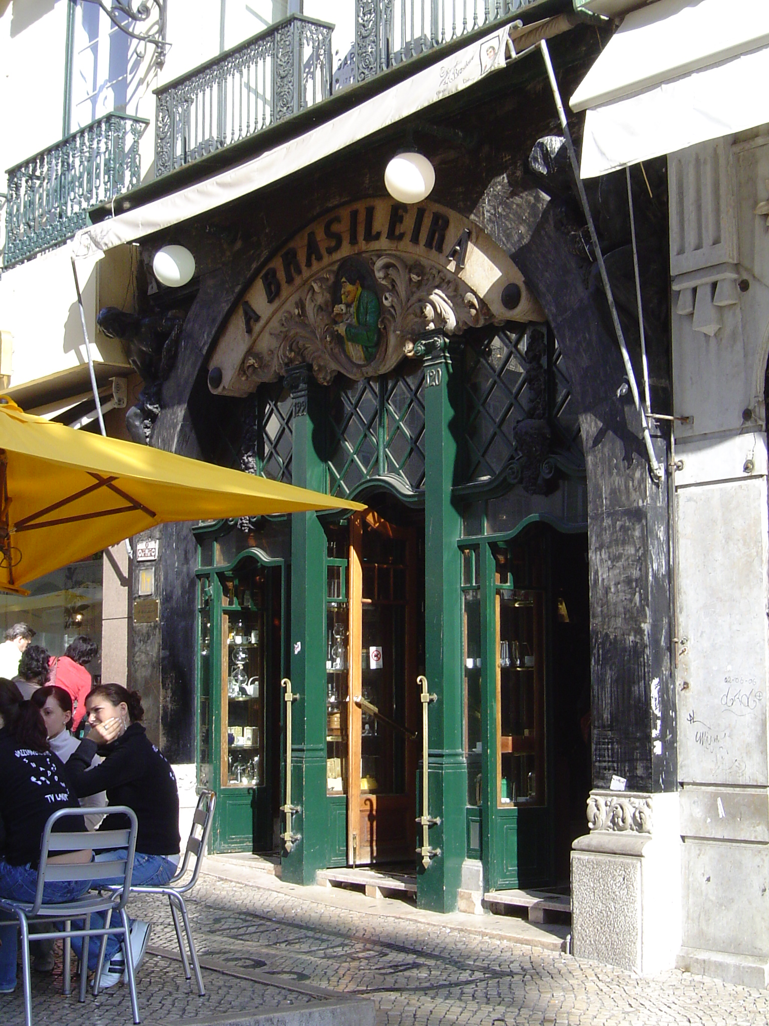 Entrance of "A Brasileira" Cafee in Lisbon, Portugal